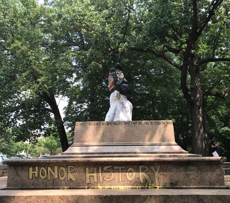 Protest art, Madre Luz by artist Pablo Machioli, placed atop the pedestal of the deposed Jackson and Lee Monument, Baltimore, 2017.